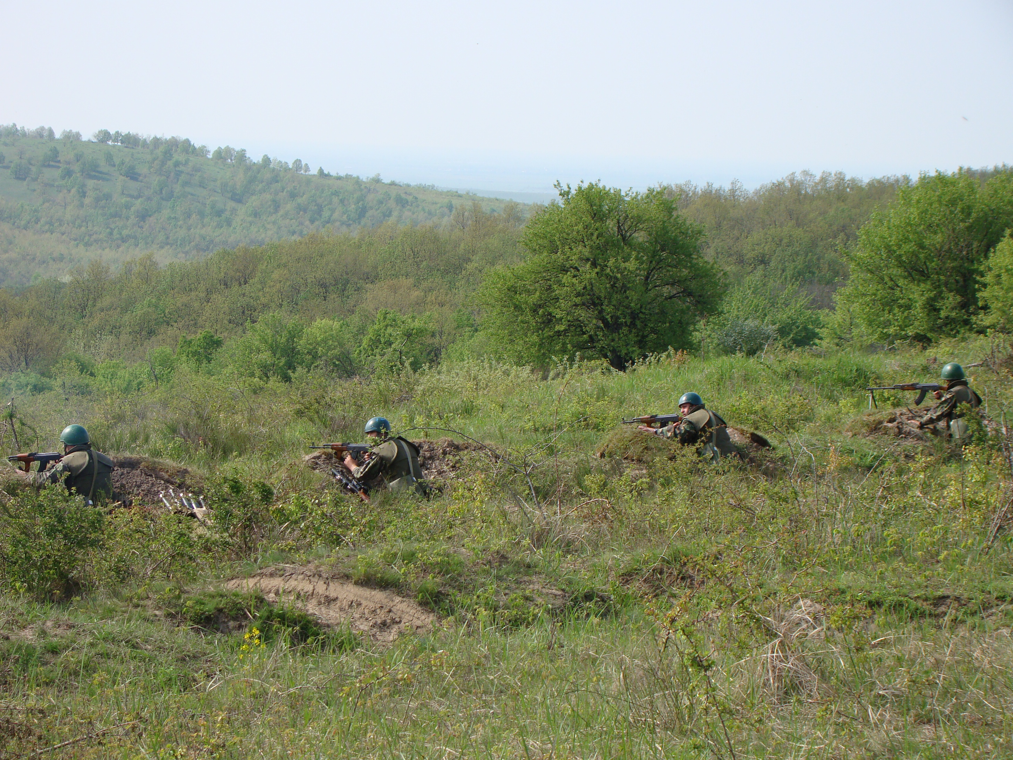 A Romania squad during a military exercise of the 191st Infantry Battalion.